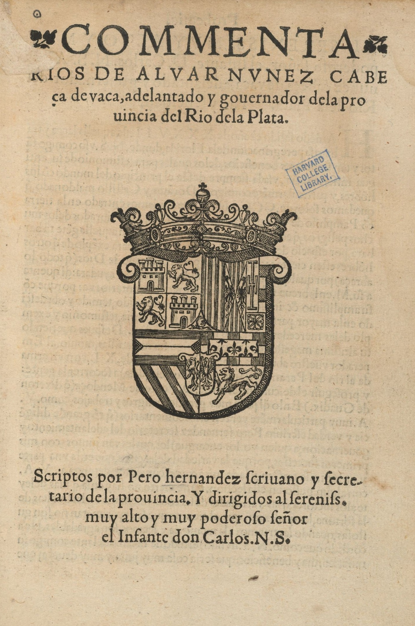 Title page: Commenta Rios de Alvar Nunez Cabeca de Vaca, 1555. This book is the second part of La relacion y comentarios del gouerna and details the explorer's travels in South America. US 2415.3*, Houghton Library, Harvard University